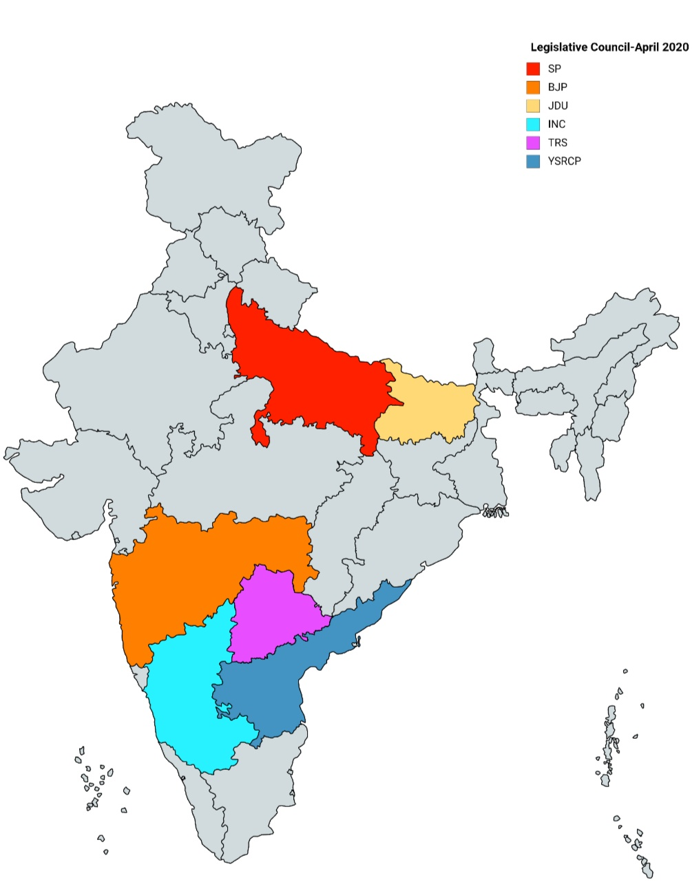 Vidhan Parishad 2020